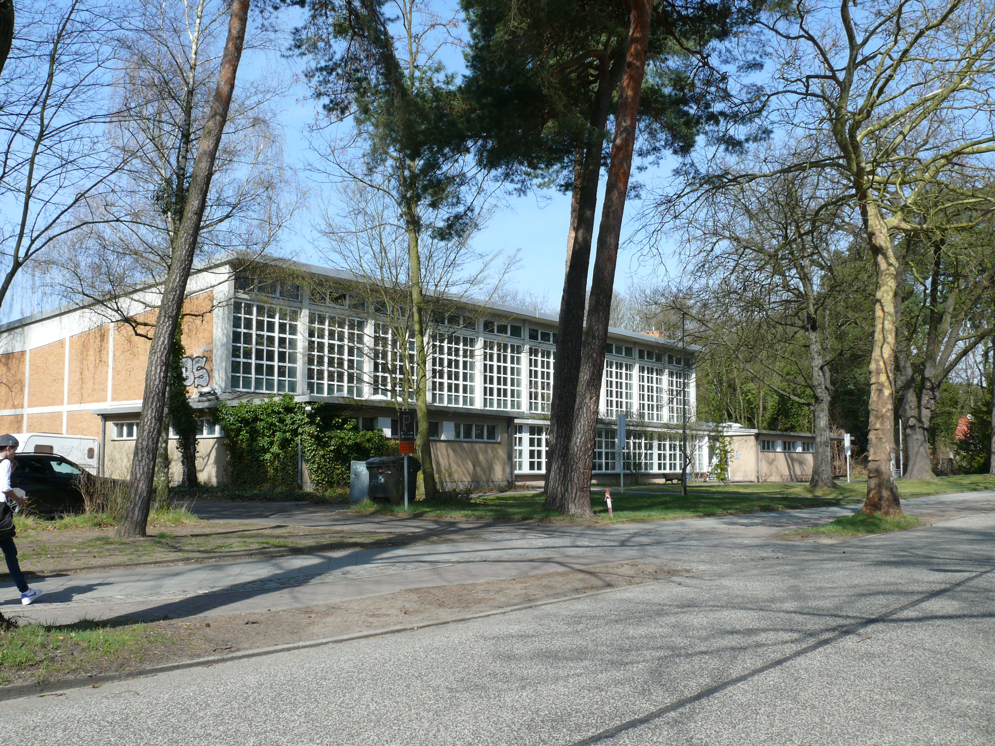 Berlin-Zehlendorf Onkel-Tom-Straße Sporthalle